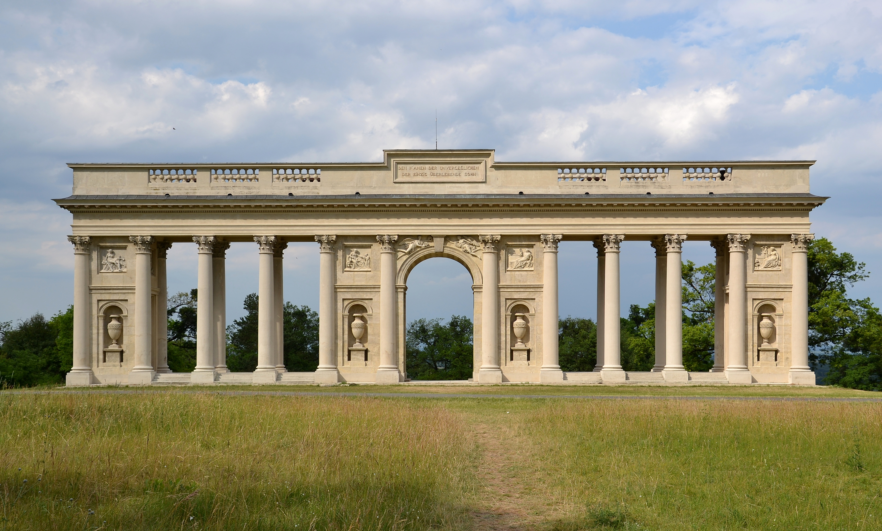 Reistna colonnade, Valtice (Feldsberg), Czech Republic